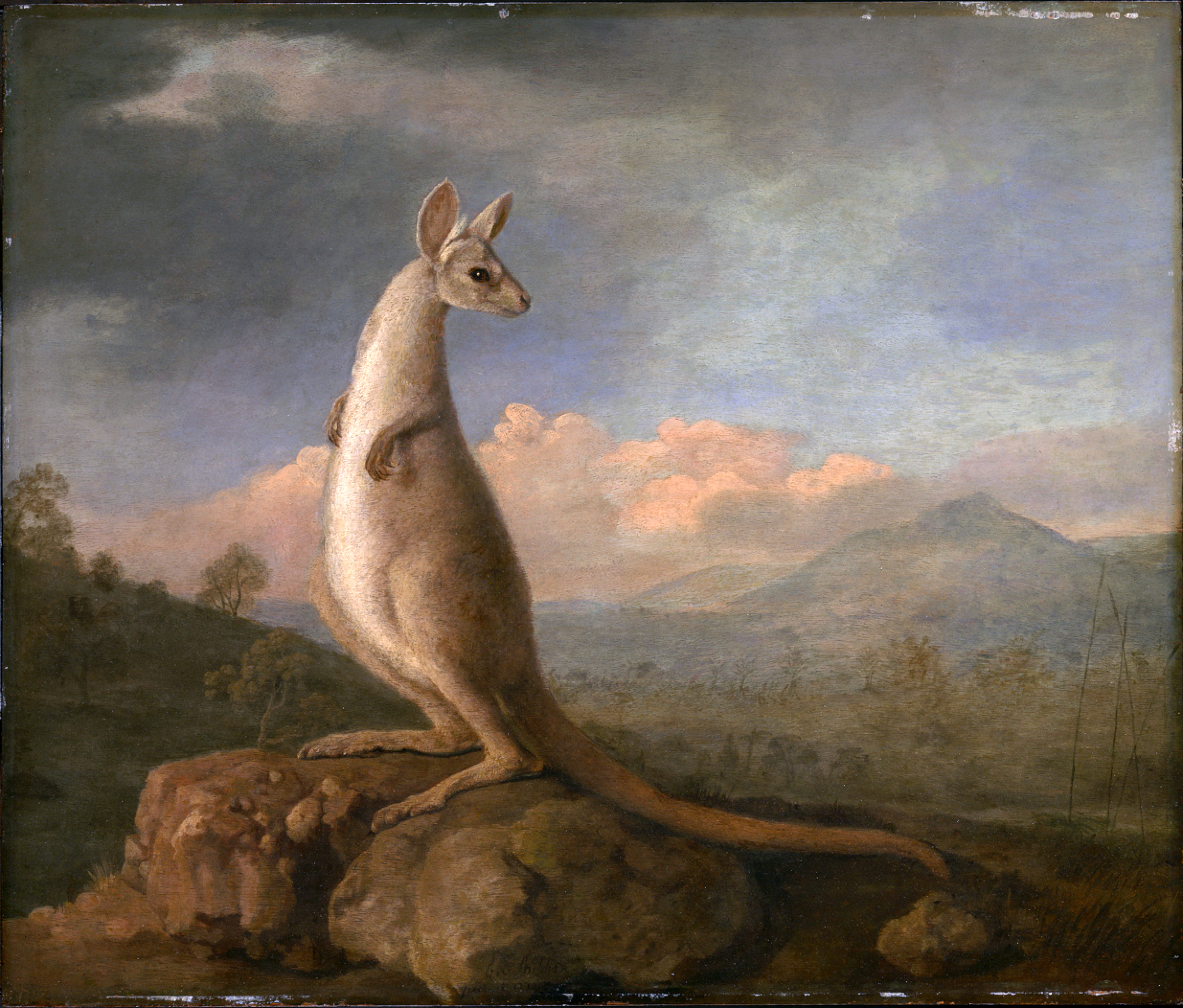 The Kongouro from New Holland (Kangaroo) 1772 by George Stubbs. National Maritime Museum object reference ZBA5754